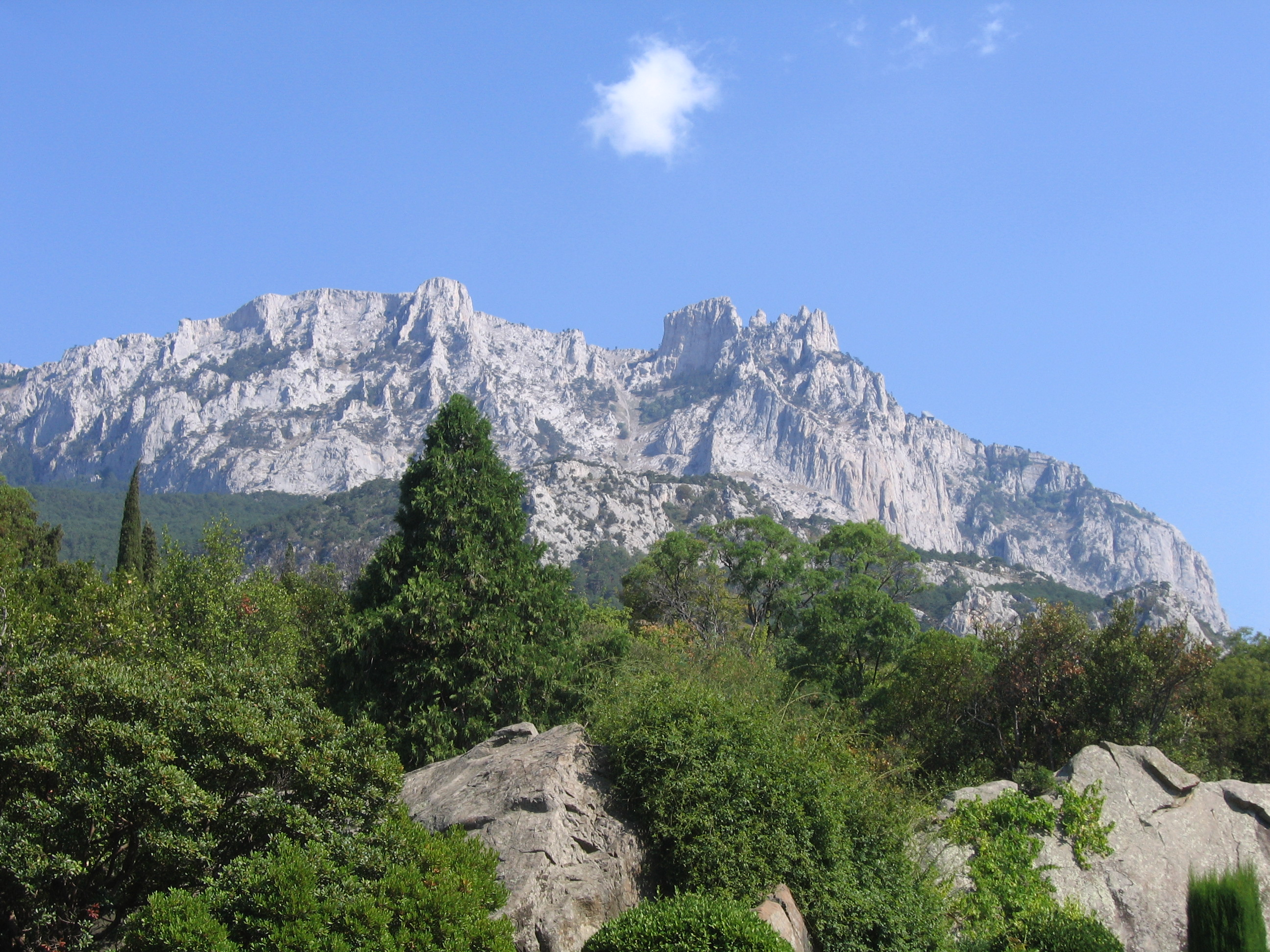 The Mount Ay-Petri (Crimea, Ukraine) by clear weather